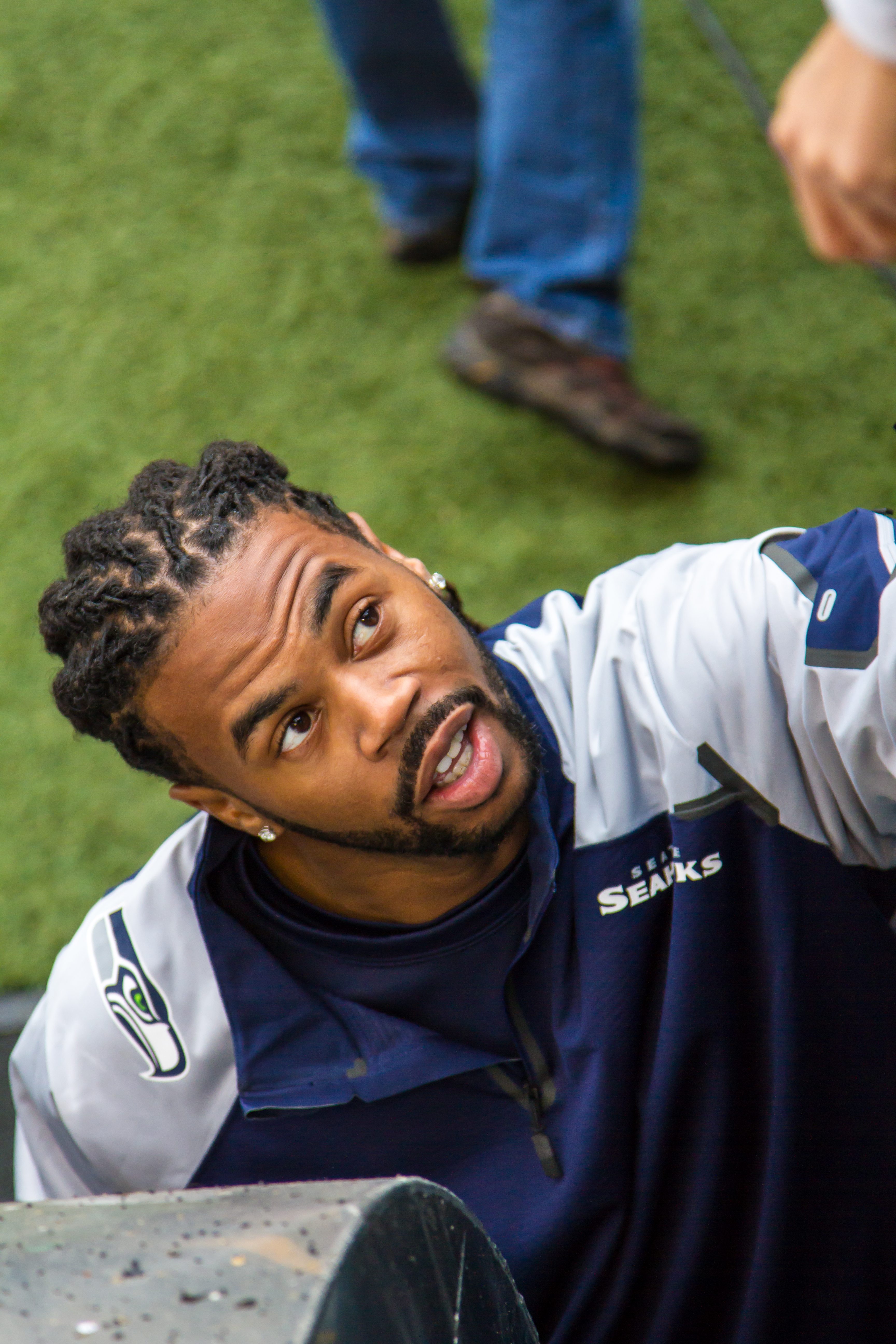 Sidney Rice, Seahawks vs Rams 12.29.13